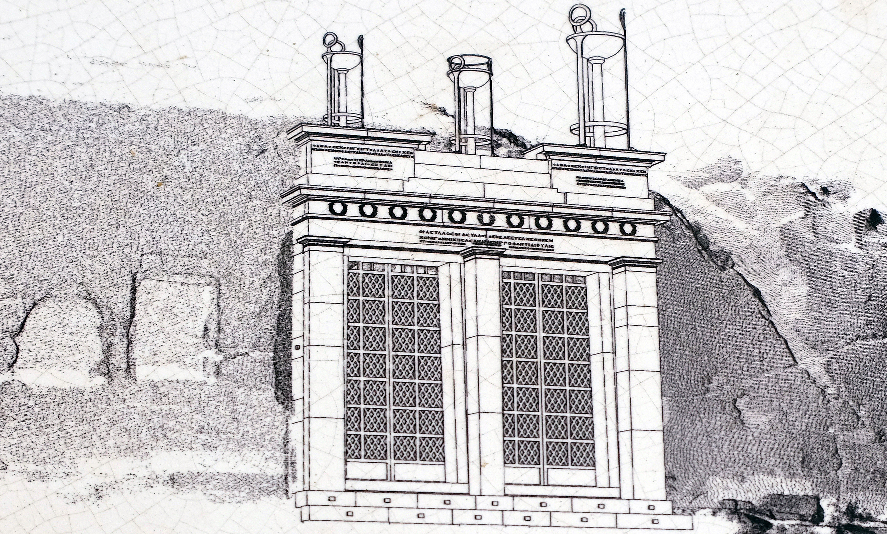 Recostruction of Choragic Monument of Thrasyllos